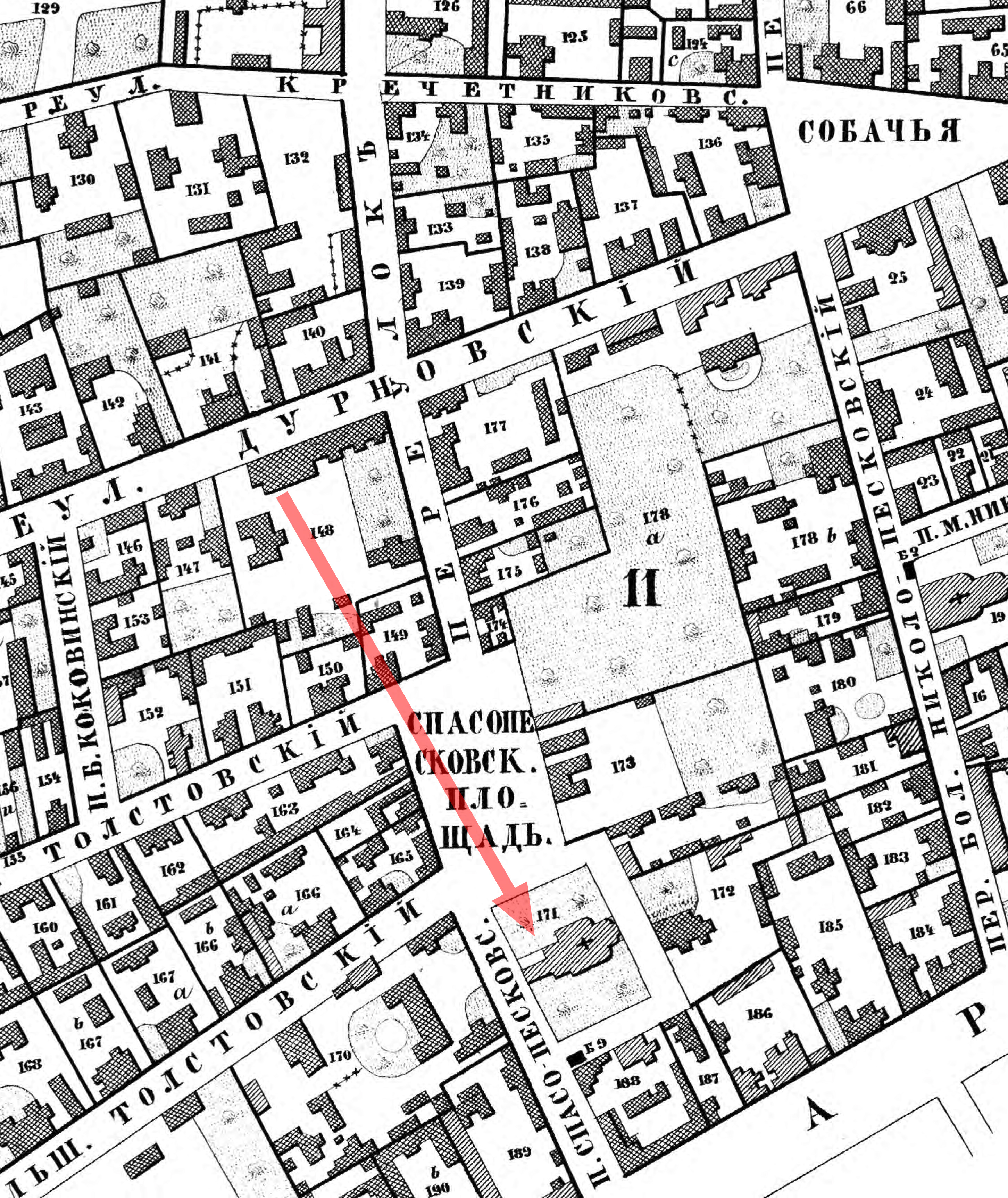 Arbatskaya chast, sheet 2 (detail). Atlas of Moscow, compiled by state topographers headed by A. Khotev, to the order of Moscow police chief, in 1852-1853. The red arrow corresponds to the direction of gaze of Vasily Polenov, the creator of "Moscow courtyard"